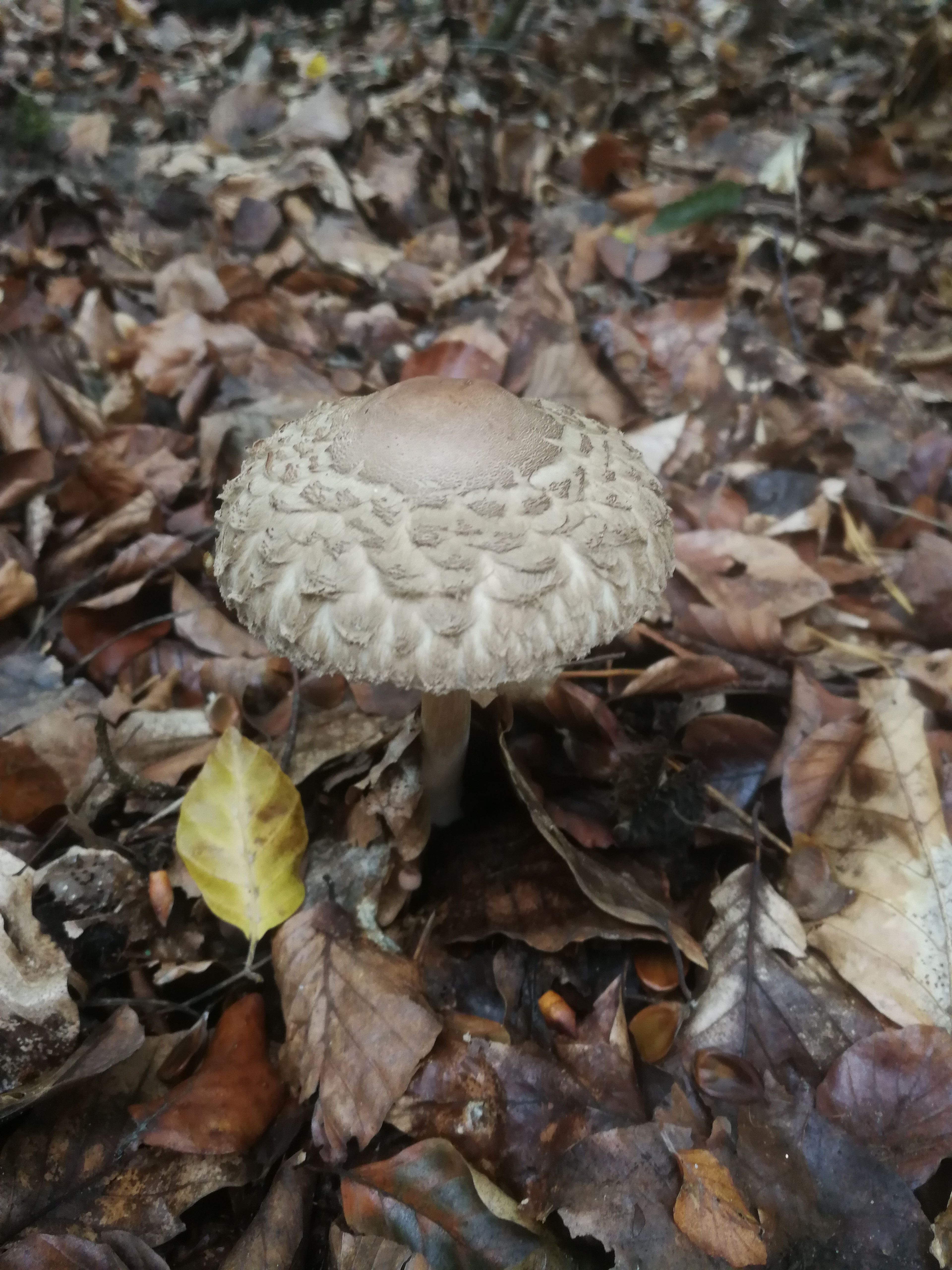 Chlorophyllum olivieri